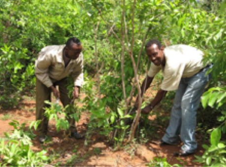 Step 3 Select the best five or so stems and cull unwanted ones. This way, when you want wood you can cut the stem(s) that are needed and leave the rest to continue growing. These remaining stems will increase in size and value each year, and will continue to protect the environment and provide other useful materials and services such as fodder, humus, habitat for useful pest predators and protection from the wind and sun. Each time one stem is harvested, a younger stem is selected to replace it.